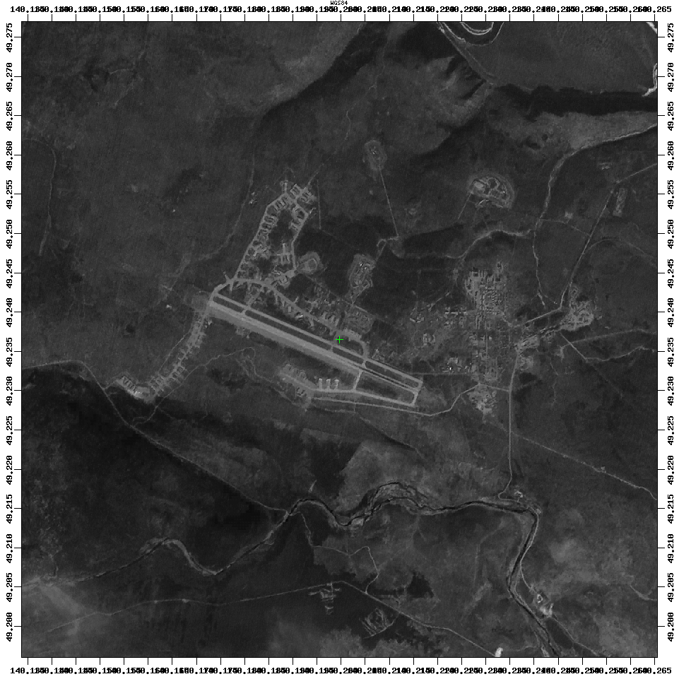 Satellite image from June 8, 1987 showing Kamenny Ruchey north of Vanino, Russia.